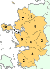 Numbered map showing municipalities of Lääne County (Estonia) as of 2005. This image was created by Senzeichi.